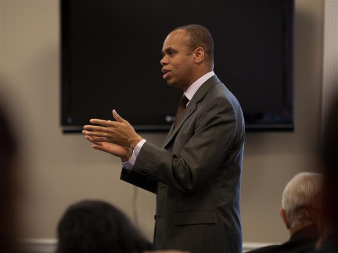 Patrick Gaspard, Director of the Office of Political Affairs, at the White House